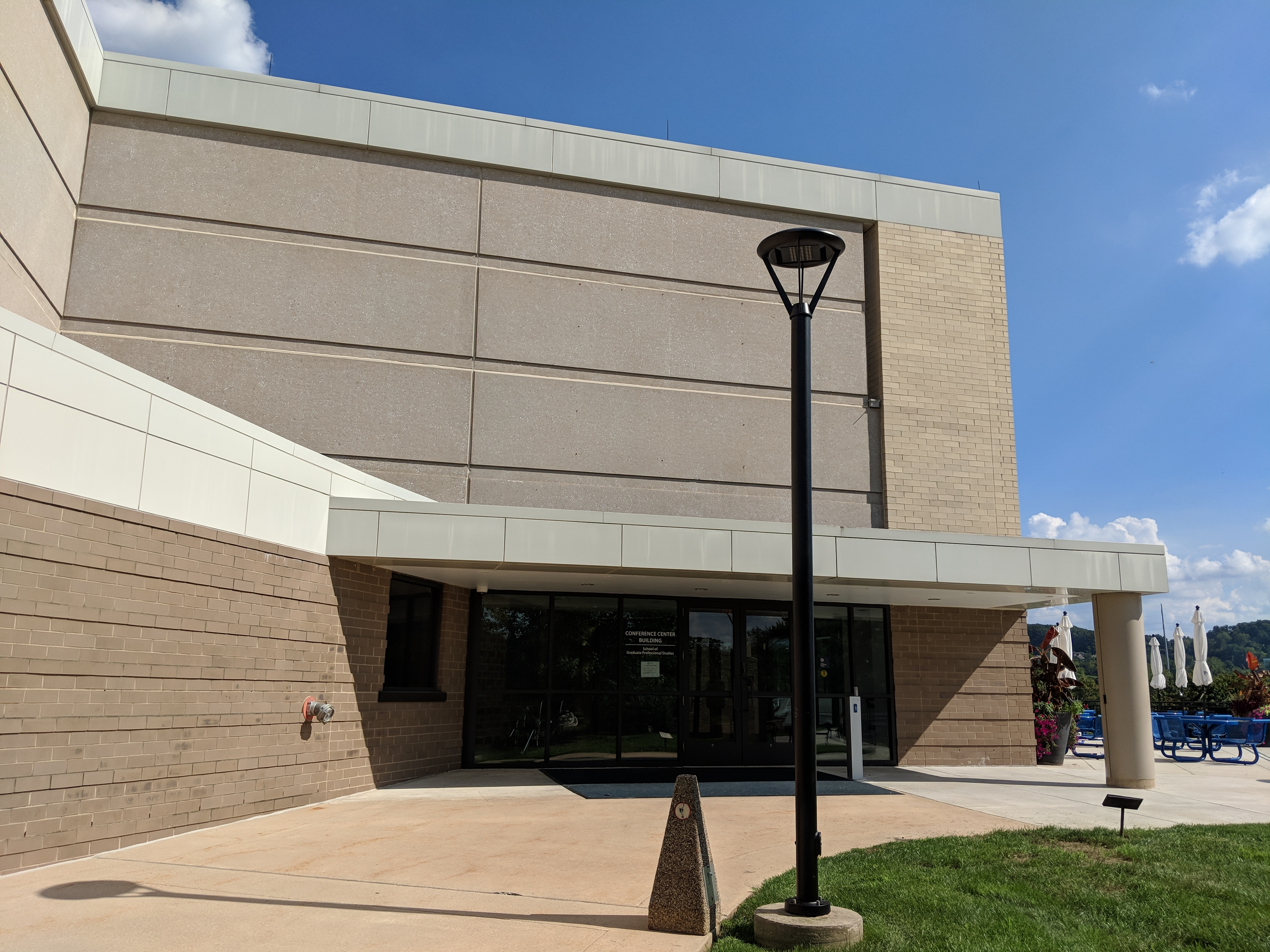 This is a landscape of the Conference Center Building on the campus of Penn State Great Valley in Malvern, Pennsylvania.